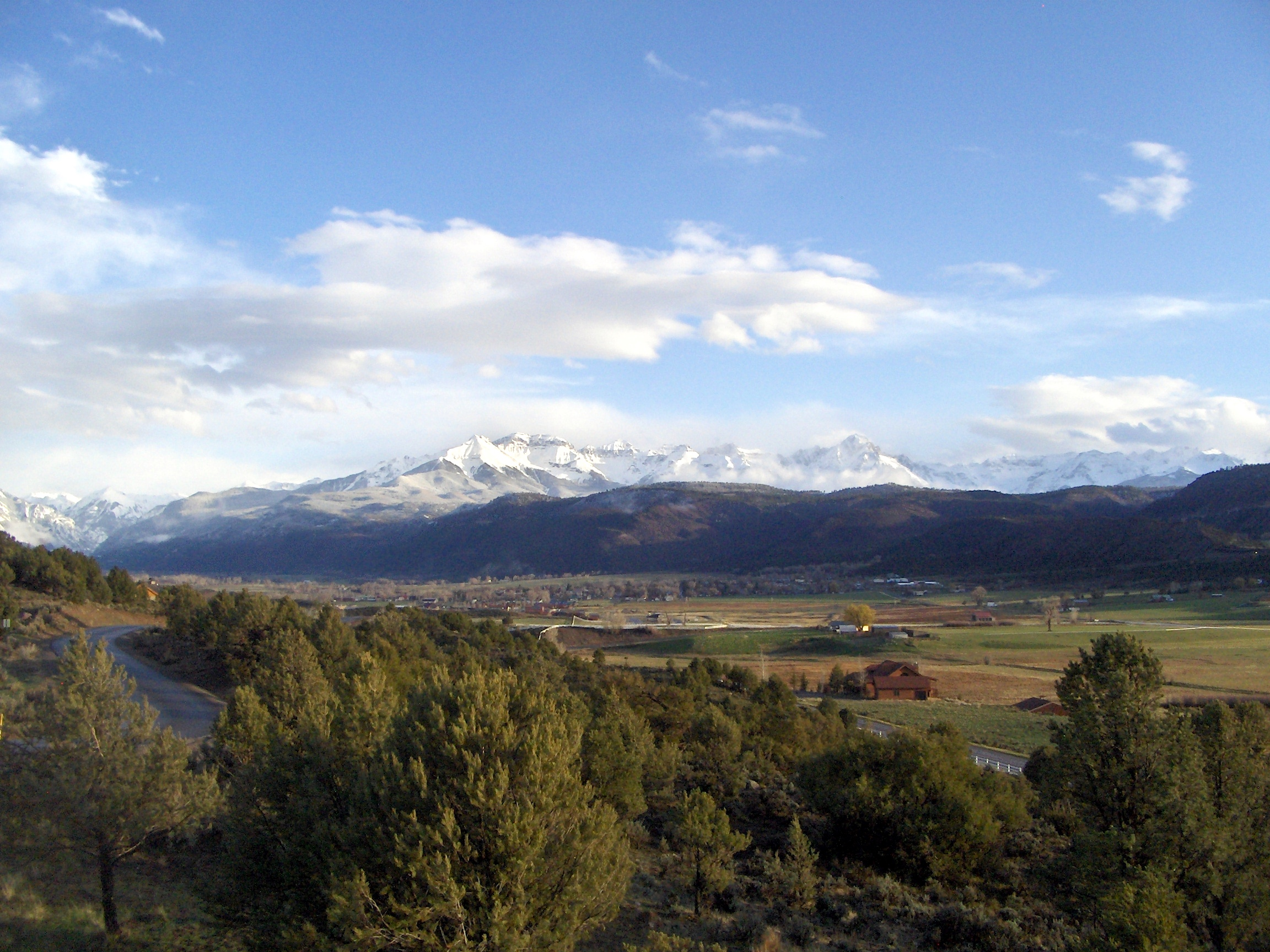 Town of Ridgway, Colorado backed by the Sneffels Range